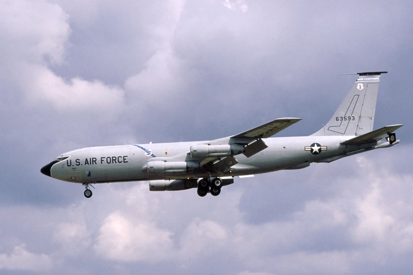 Mildenhall, 13 May 1989. 56-3593 was of two New Hampshire ANG (133rd ARS) KC-135Es arriving that day. The other one (59-1505) was in a dreadful olive green camouflage. This KC-135 is now resting at AMARC.